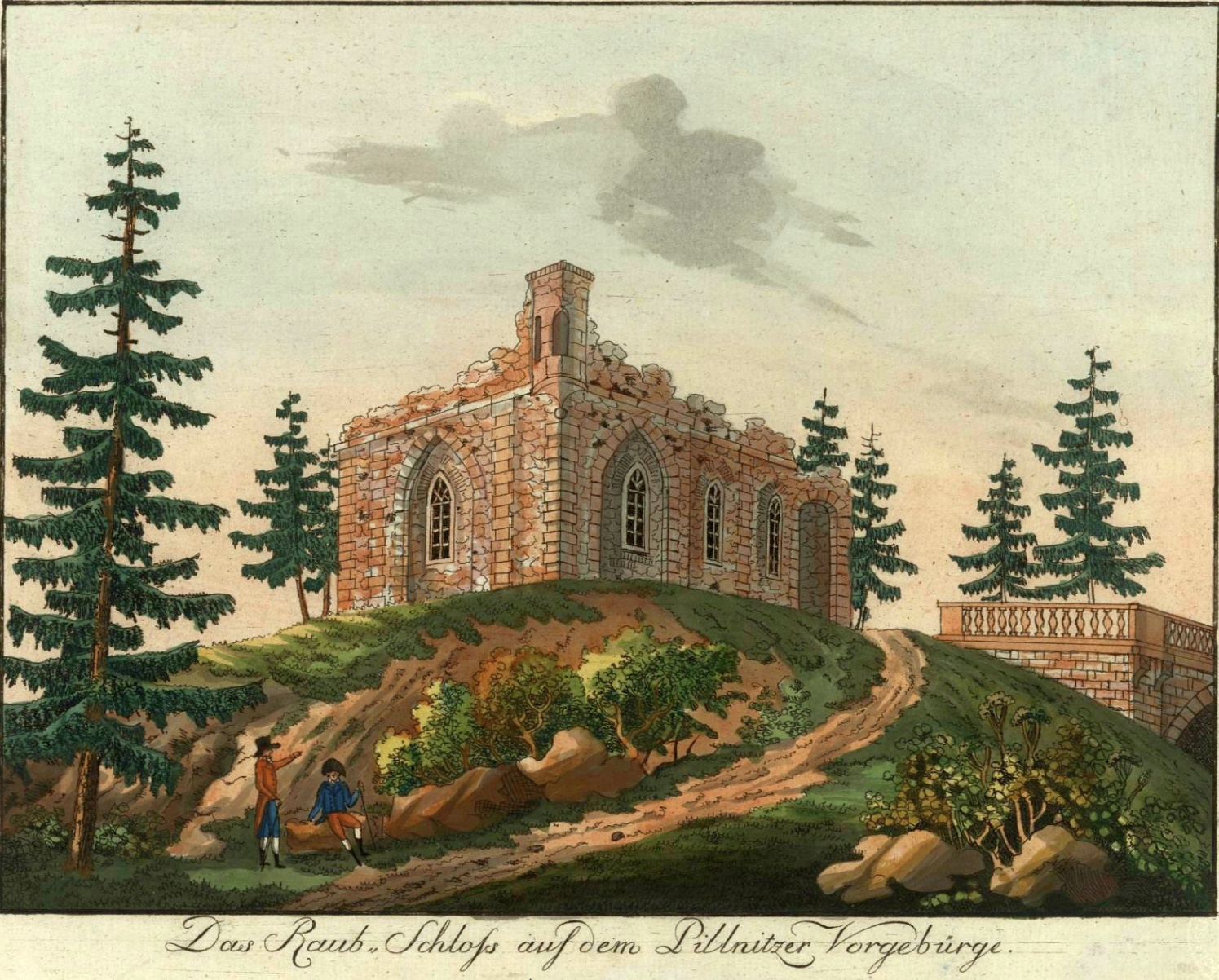 The artificial ruin near Pillnitz Castle around 1800